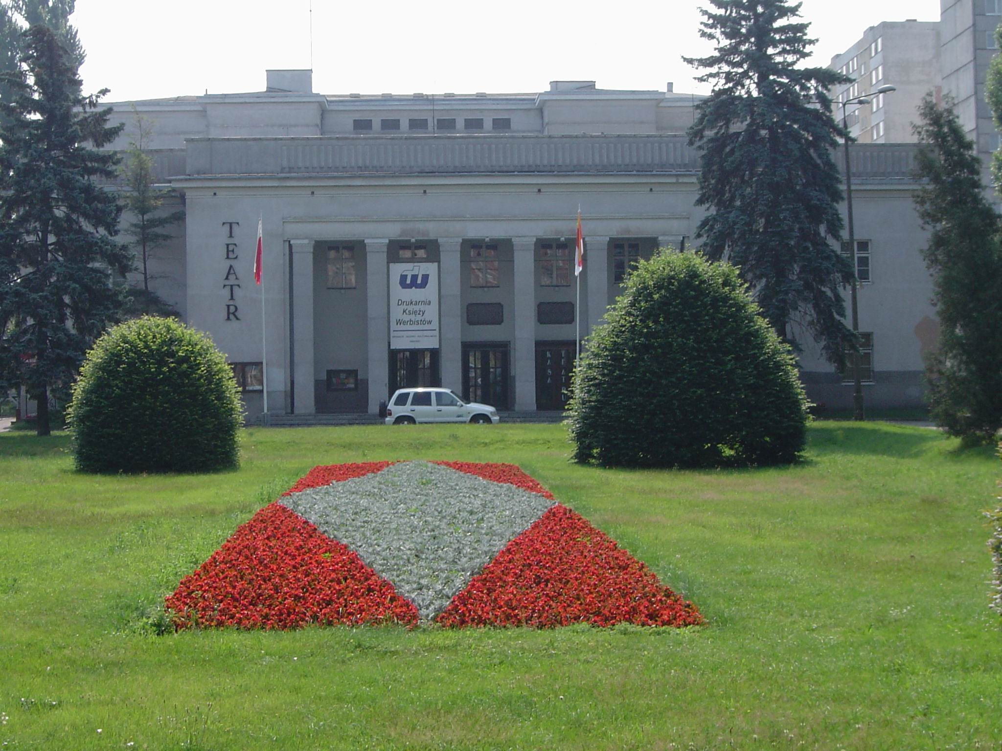 Theatre in Grudziądz